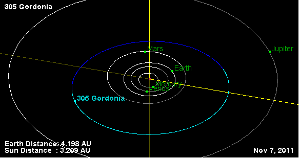 Orbit diagram of 305 Gordoniaа